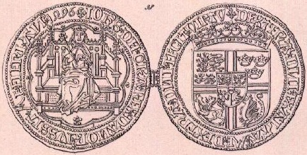 Gold coin (noble) of John of Denmark, Norway, Sweden. (p.134-35)